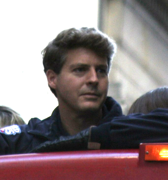 Hal Steinbrenner